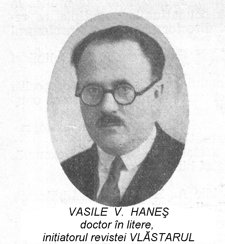 V.V.Hanes